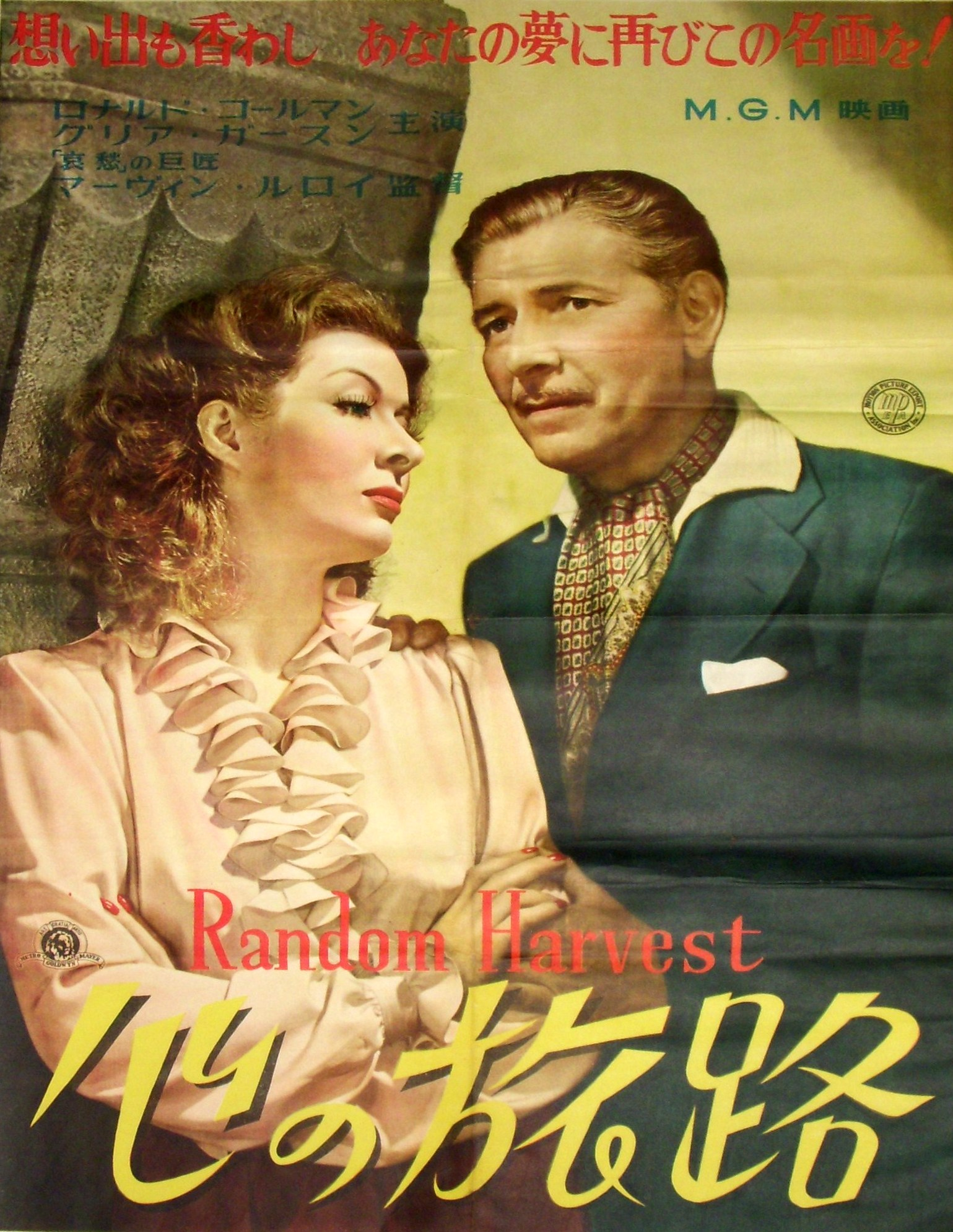 Random Harvest 1947 - Japanese movie poster